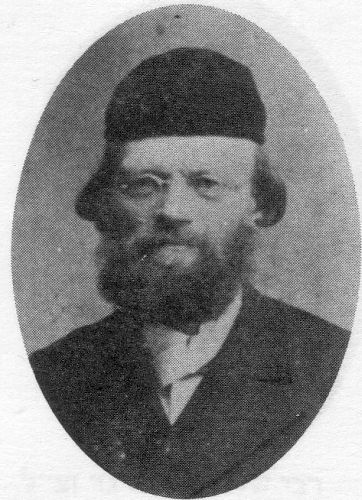 Simon Bamberger (1832-1897) rabbi of Ashaffenburg from 1881 to his death